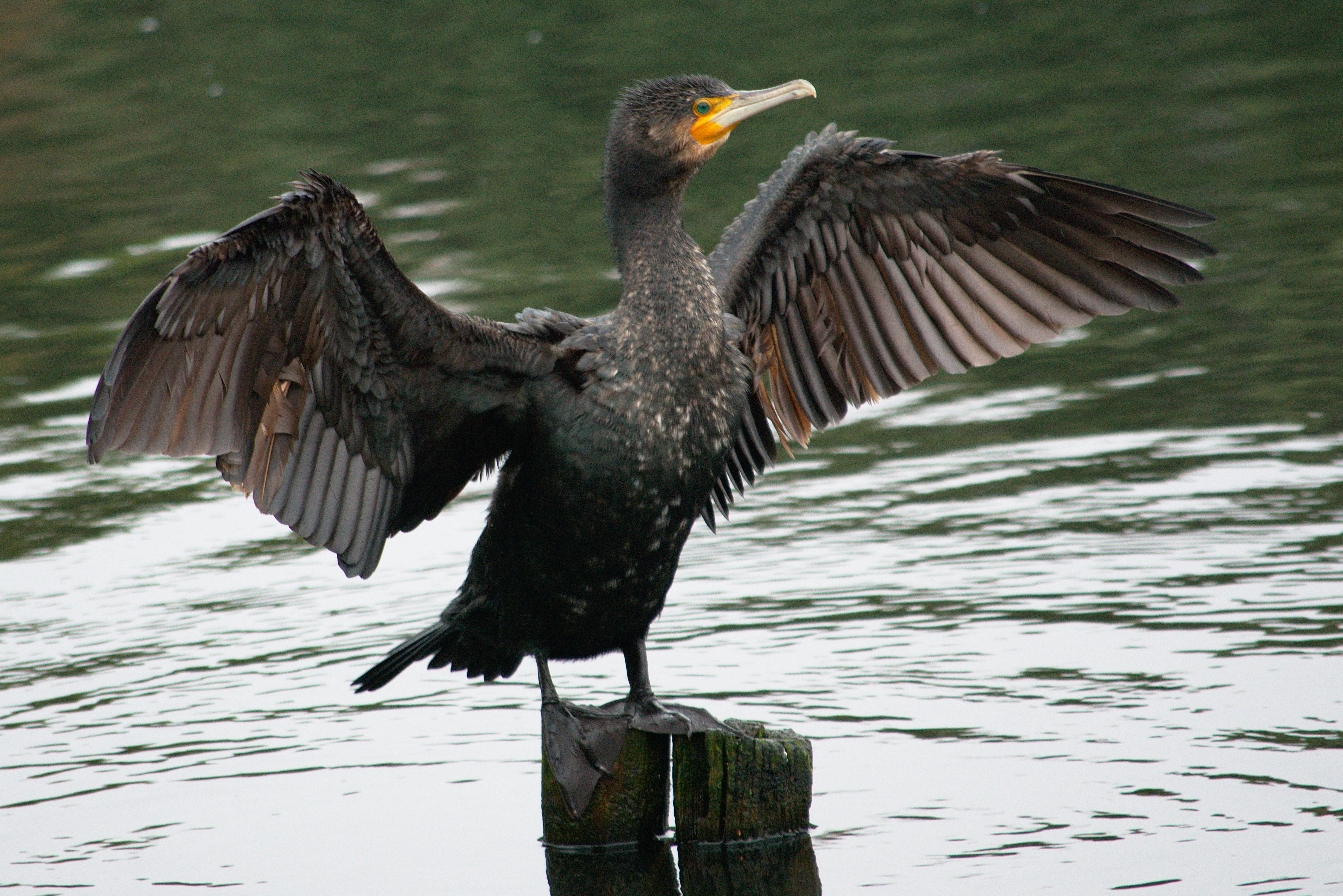 This great cormorant (Phalacrocorax carbo) is drying its feathers. Although this birds spend a great part of their time on the water, their feathers are not water-repellent. Therefore, they are commonly seen with their wings spread, in order to get their feathers dry.